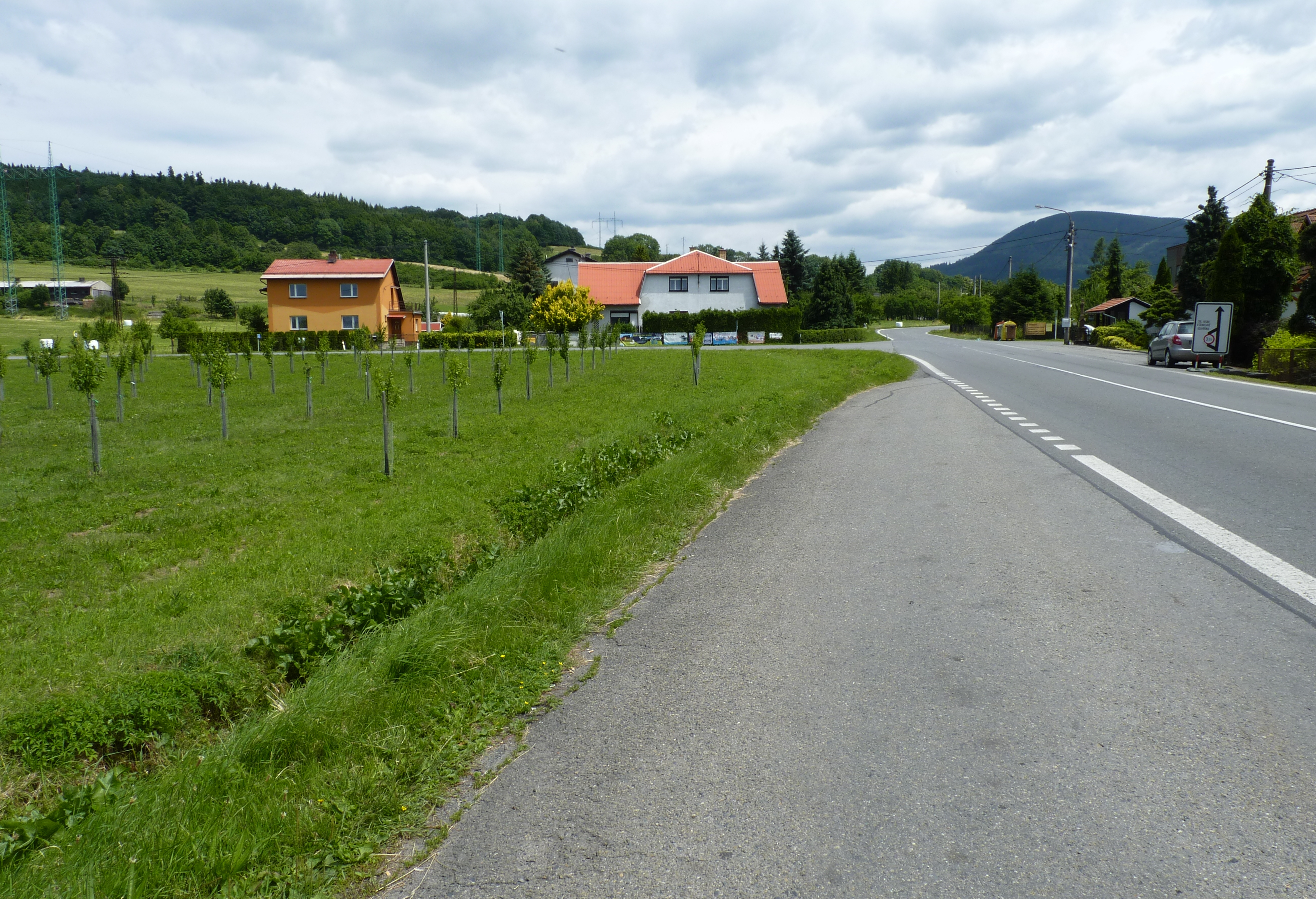 Veřovice. Nový Jičín District, Moravian-Silesian Region, Czech Republic